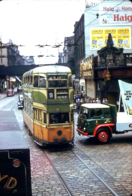 Glasgow tram, Trongate (at Glasgow Cross), June 1962. the tram is seen on Route 9, between Auchenshuggle and Dalmuir West, three months before the end of trams in Glasgow.